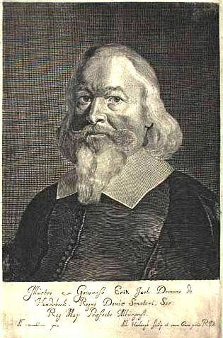 picture of Erik Juel, Danish "Rigsråd", father of Niels Juel